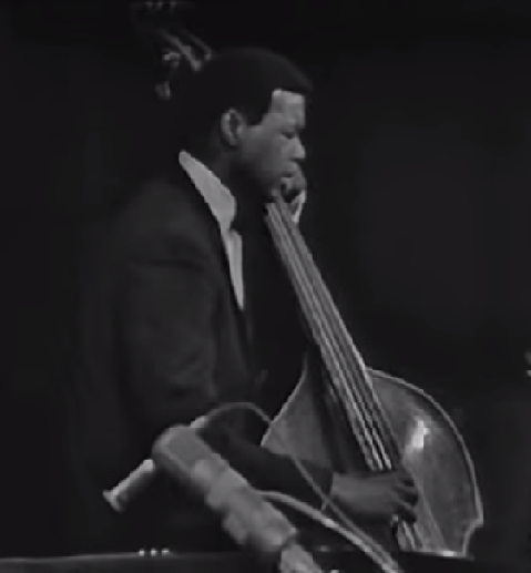 Olympia, Paris, November 24, 1965